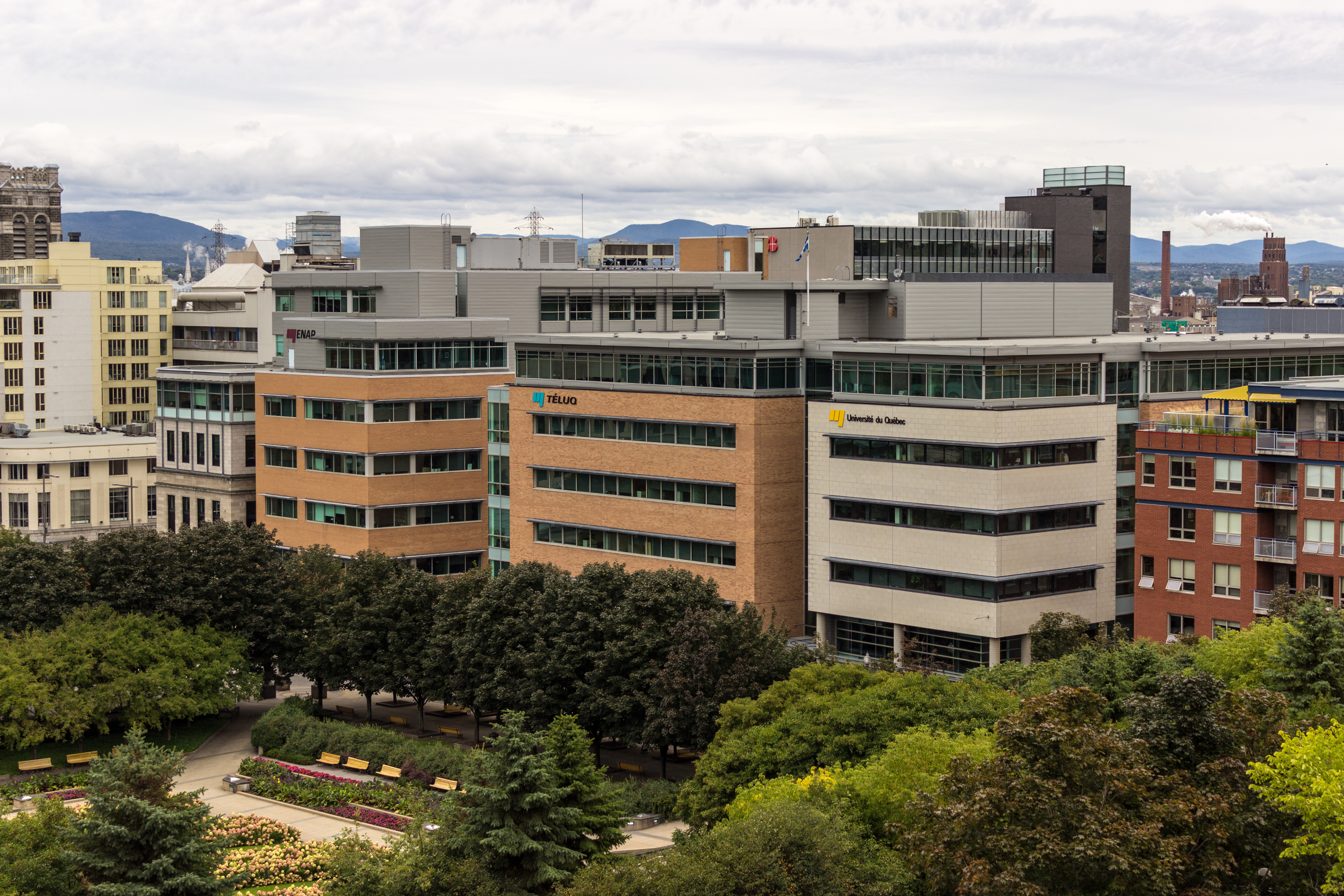 ENAP, Teluq and UdQ buildings in Quebec City